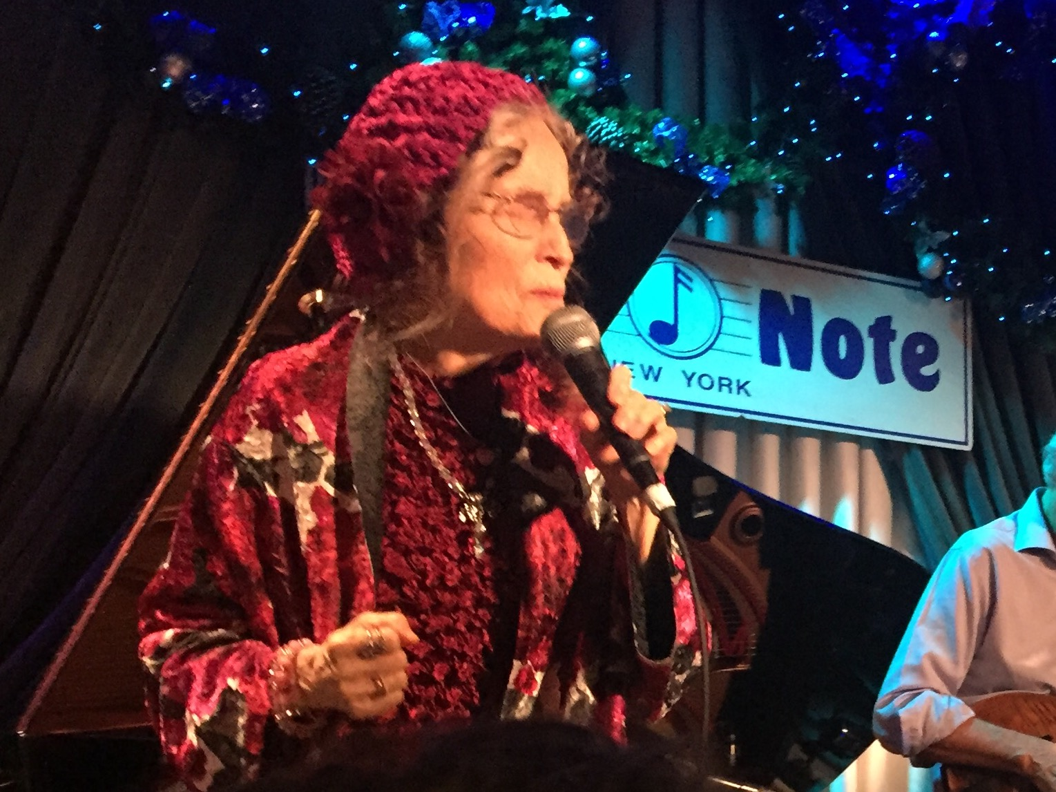 Gayle Moran, Blue Note Jazz Club, New York City, 10 December 2016; singing "Smile of the Beyond"